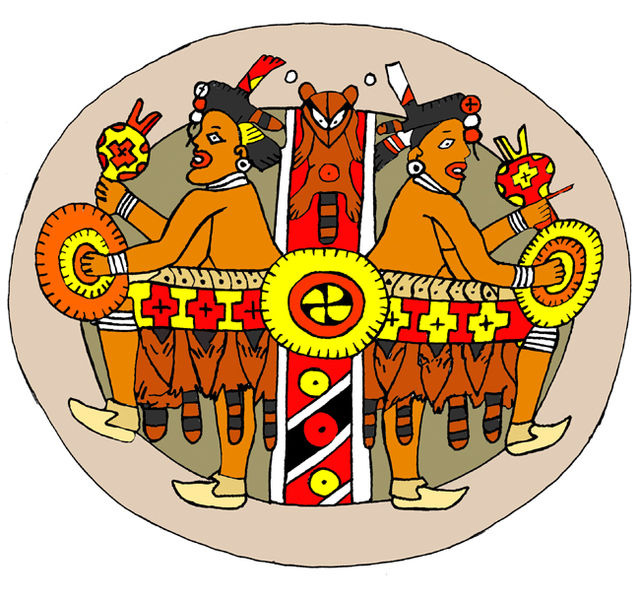 S.E.C.C. design of the Hero Twins based on a Mississippian culture shell engraving from the Spiro Mounds site.